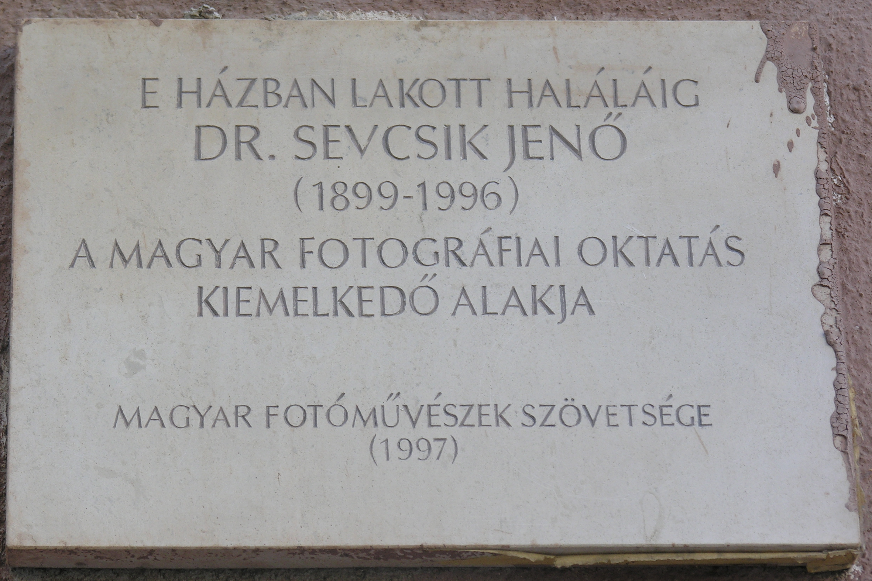 Commemorative plaque of Jenő Sevcsik in Budapest District II, Lövőház Street No 26 (on side of the Káplár Street)